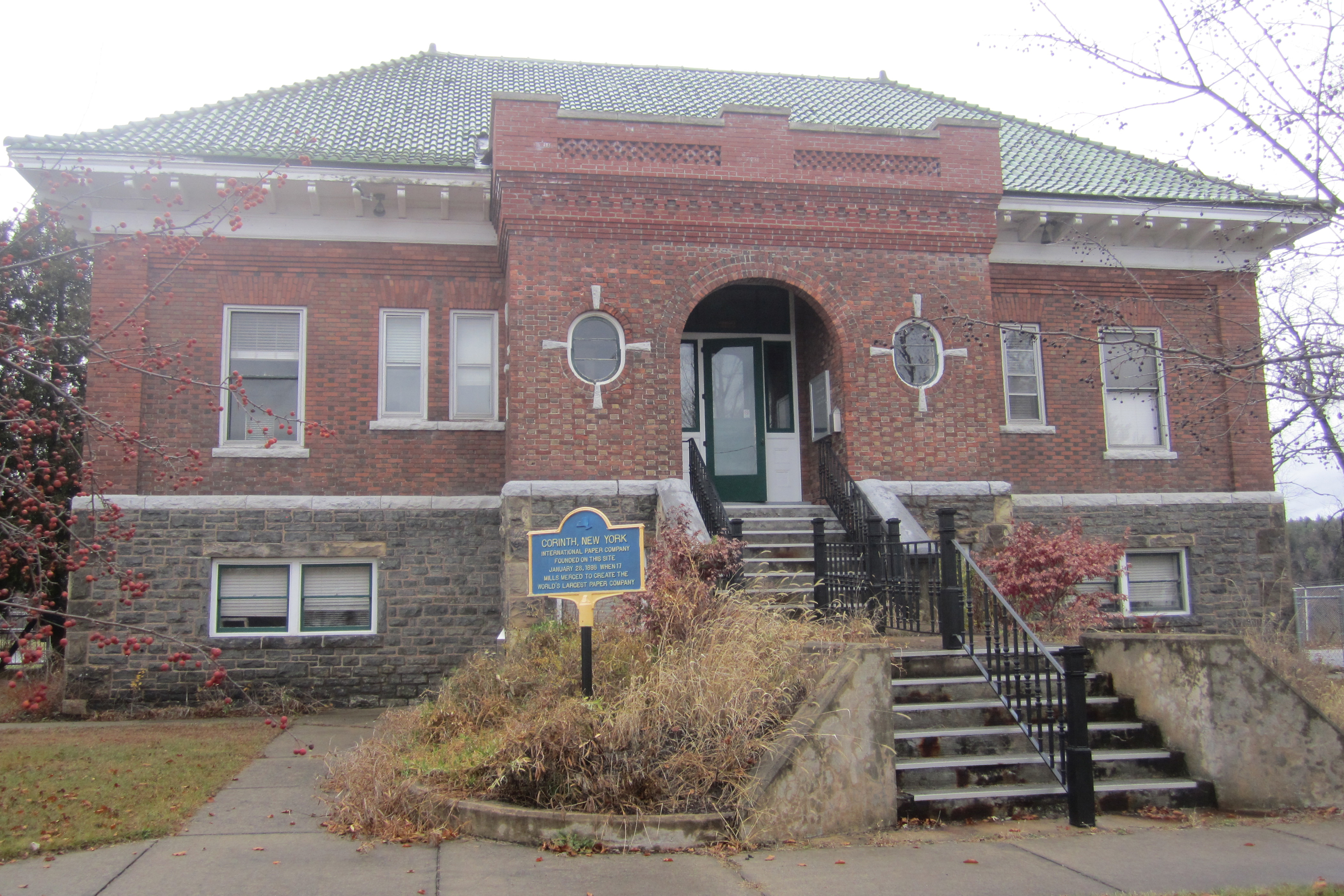 International Paper was founded here in Corinth, New York, in 1898.